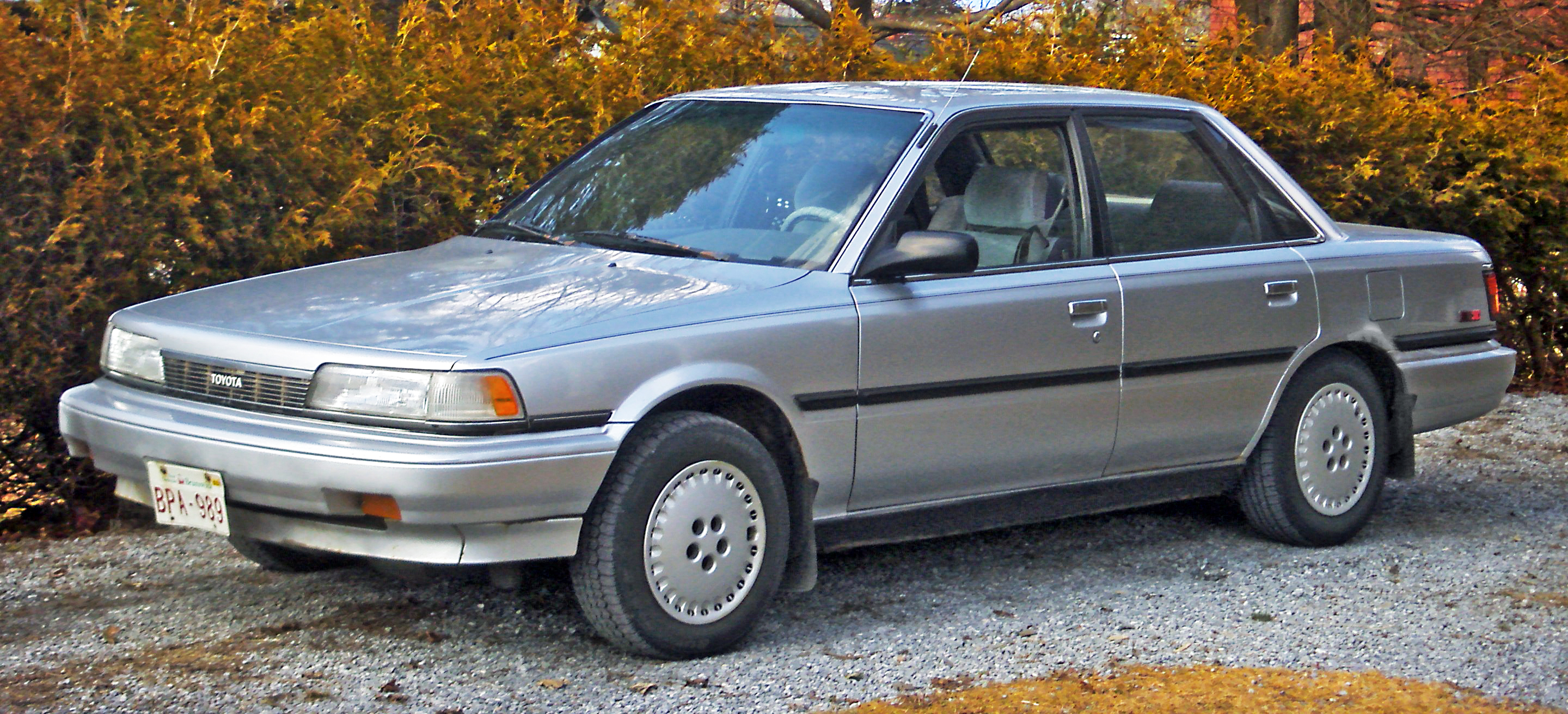 1987–1990 Toyota Camry LE sedan, photographed in New Brunswick, Canada.